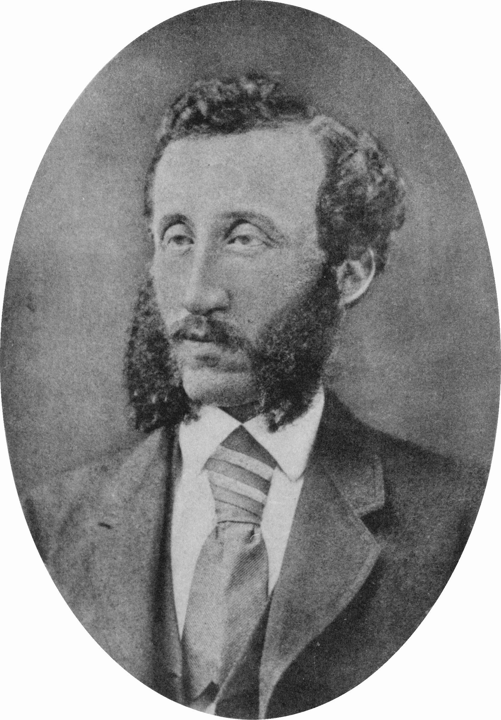 M. M. Scott.